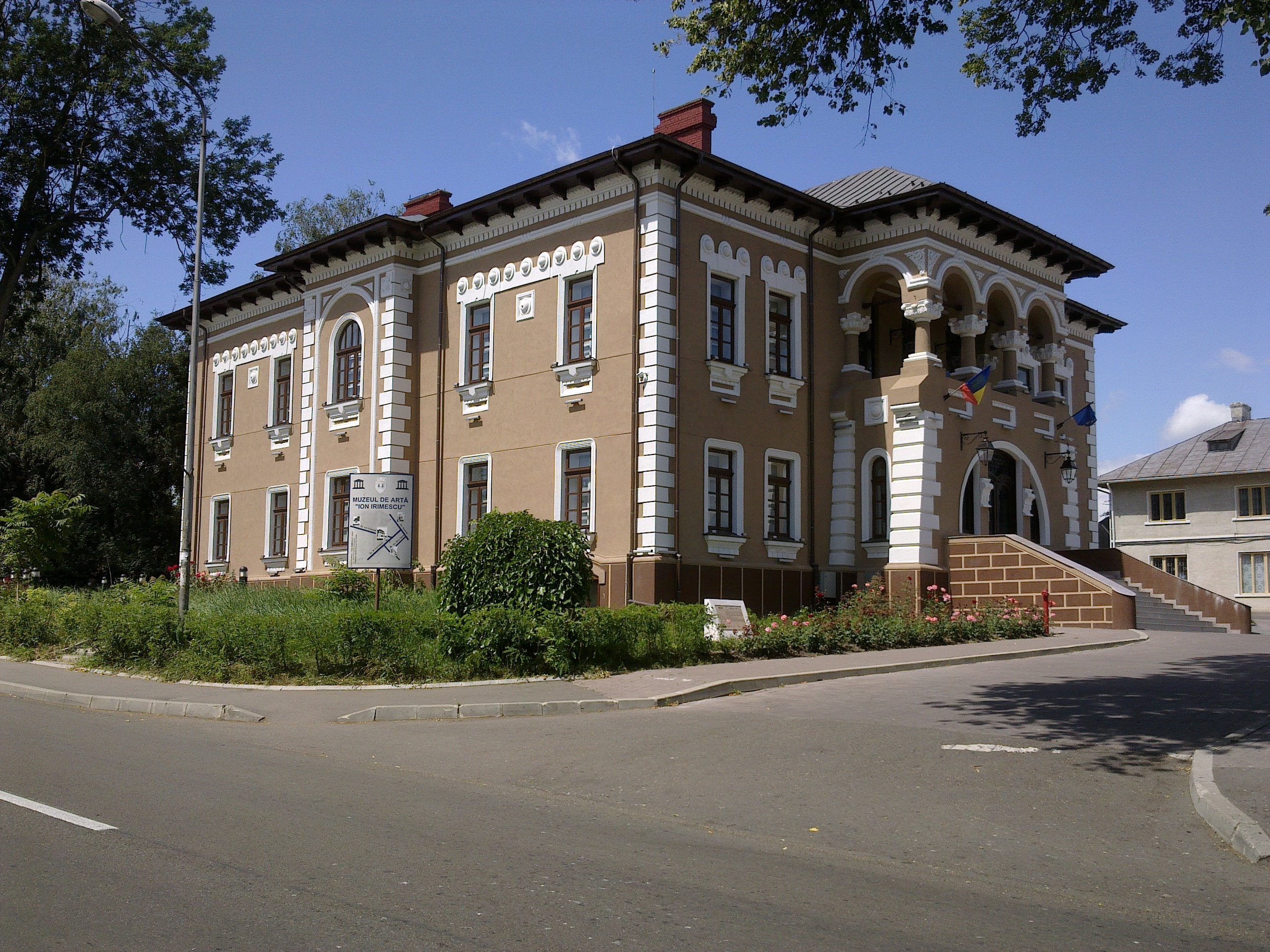 Ion Irimescu Art Museum in Fălticeni, refurbished in 2012.